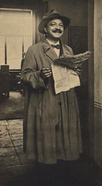 Vratislav Hugo Brunner (1886-1928), Czech artist